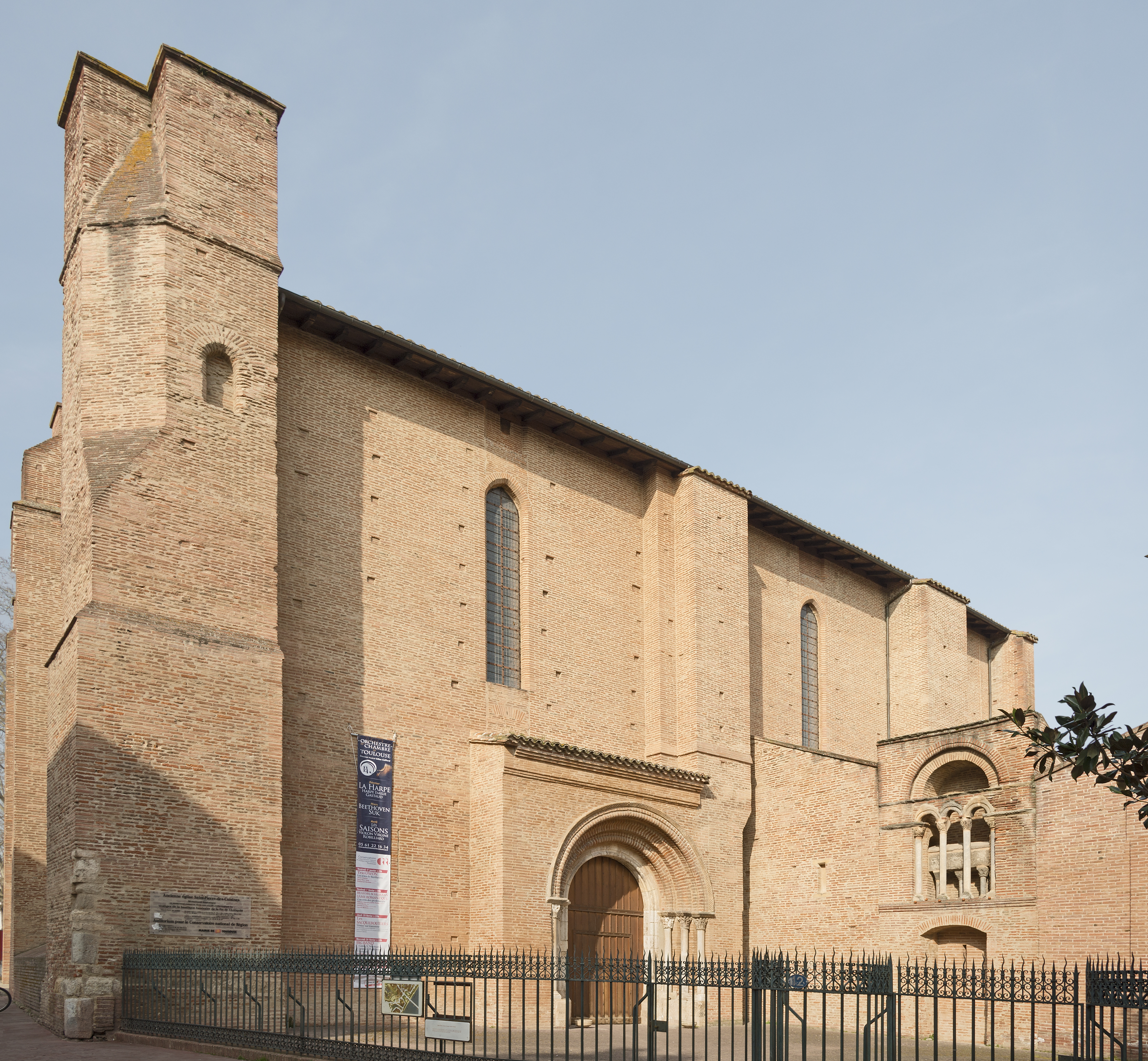 Former church Saint-Pierre des Cuisines from Toulouse. Southern Facade.